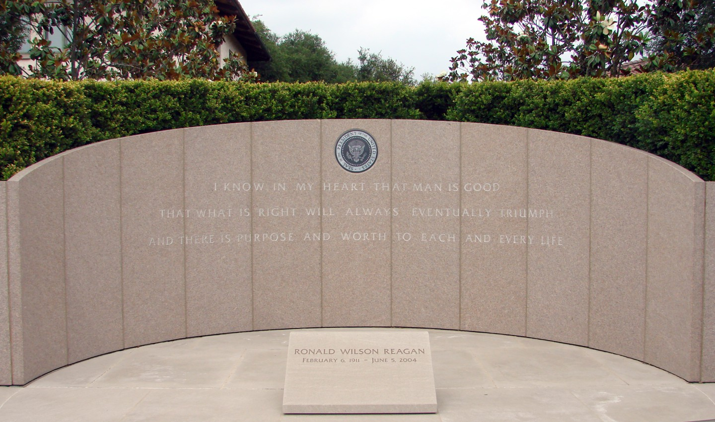 Grave of Ronald Reagan, 40th president of the United States, Semi Valley, California. (1 in a 8-picture set)